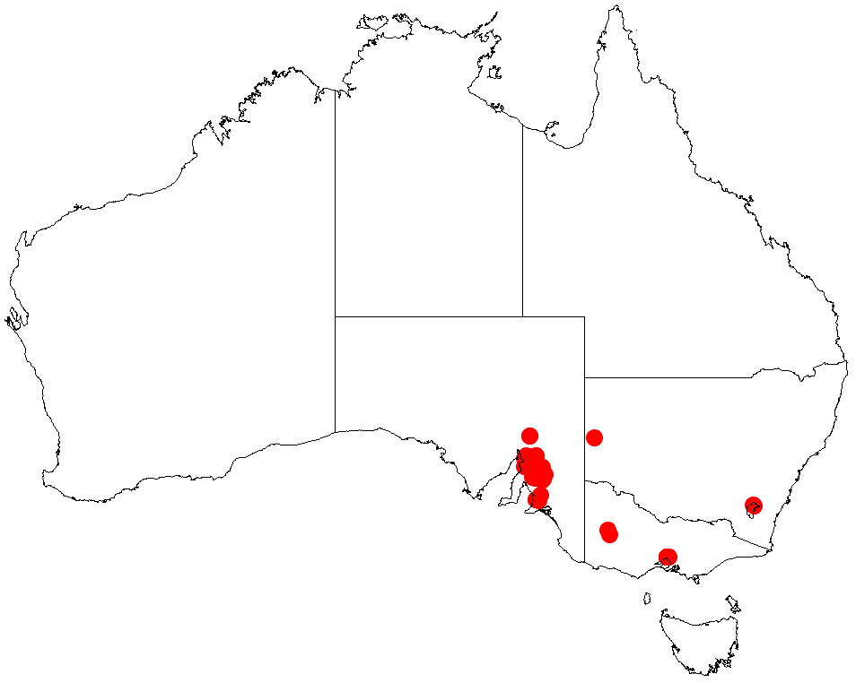 Acacia wattsiana occurrence data from Australasia Virtual Herbarium downloaded from on 8 December 2018